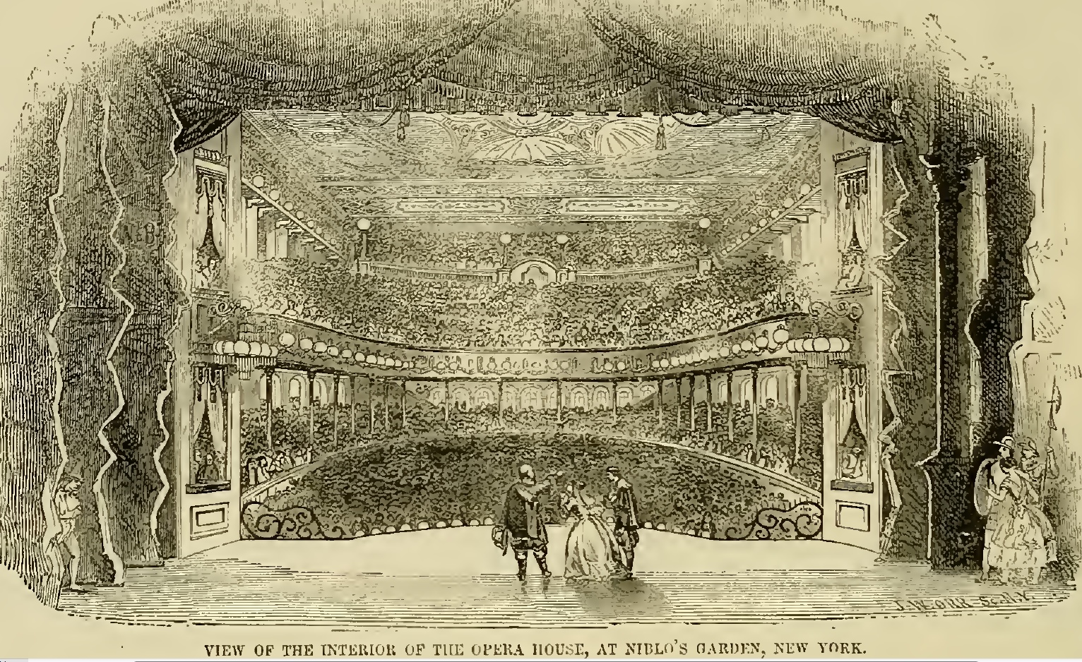 Gleason’s Pictorial Drawing-Room Companion, Vol. 4 No. 20 (Saturday, May 14, 1853), p. 308, Boston.